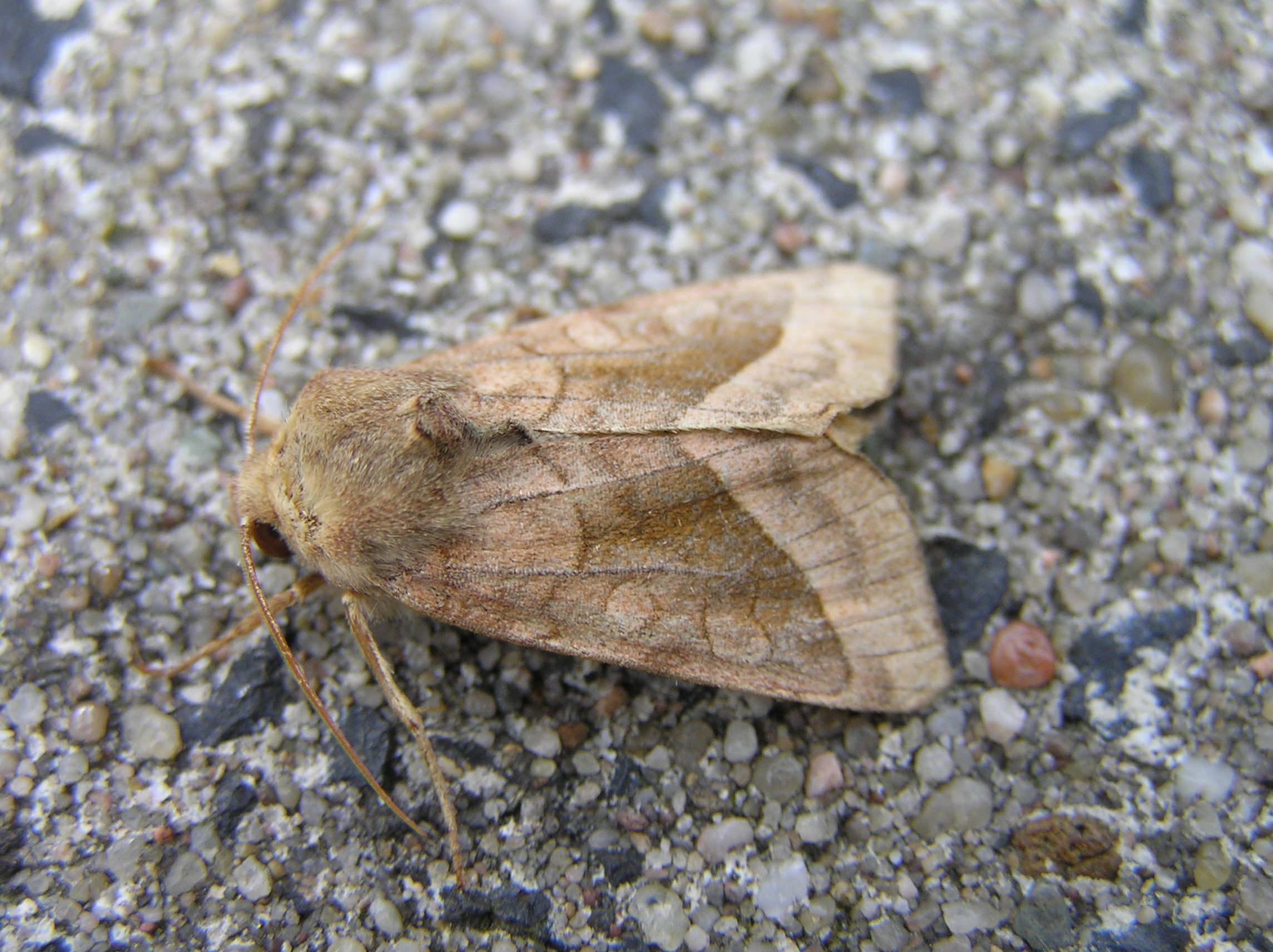 Hydraecia micacea (Zwaakse Weel, the Netherlands)